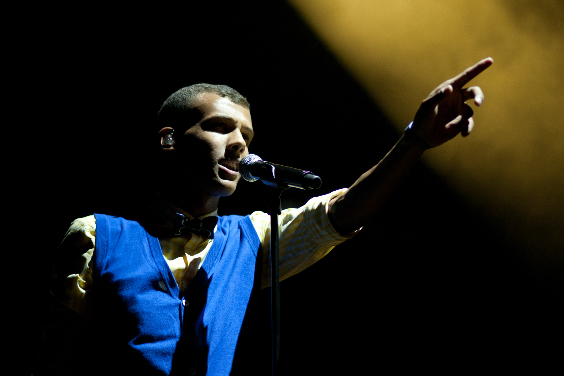 Follow me on facebook Twitter : @didyPhotography All the photographies I've made are now under CC0 (Creative Commons Zero) CC0 - learn more To the extent possible under law, Eddy BERTHIER has waived all copyright and related or neighboring rights to Stromae @ BSF 2011. This work is published from: France.